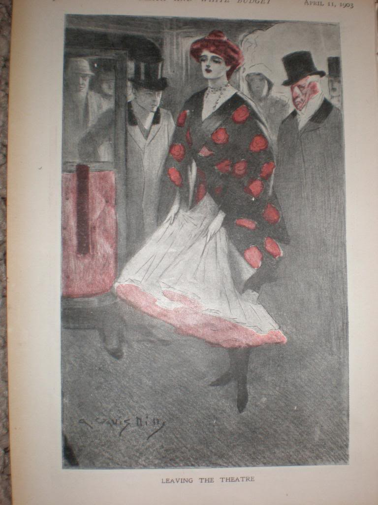 Leaving the Theatre by Arthur Wallis Mills for The Black and White Illustrated Budget, 01903-04-11 Photograph taken (with flash glare) of cutting from paper by devonian35 on eBay.